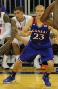 Andrew Wiggins made Jumper